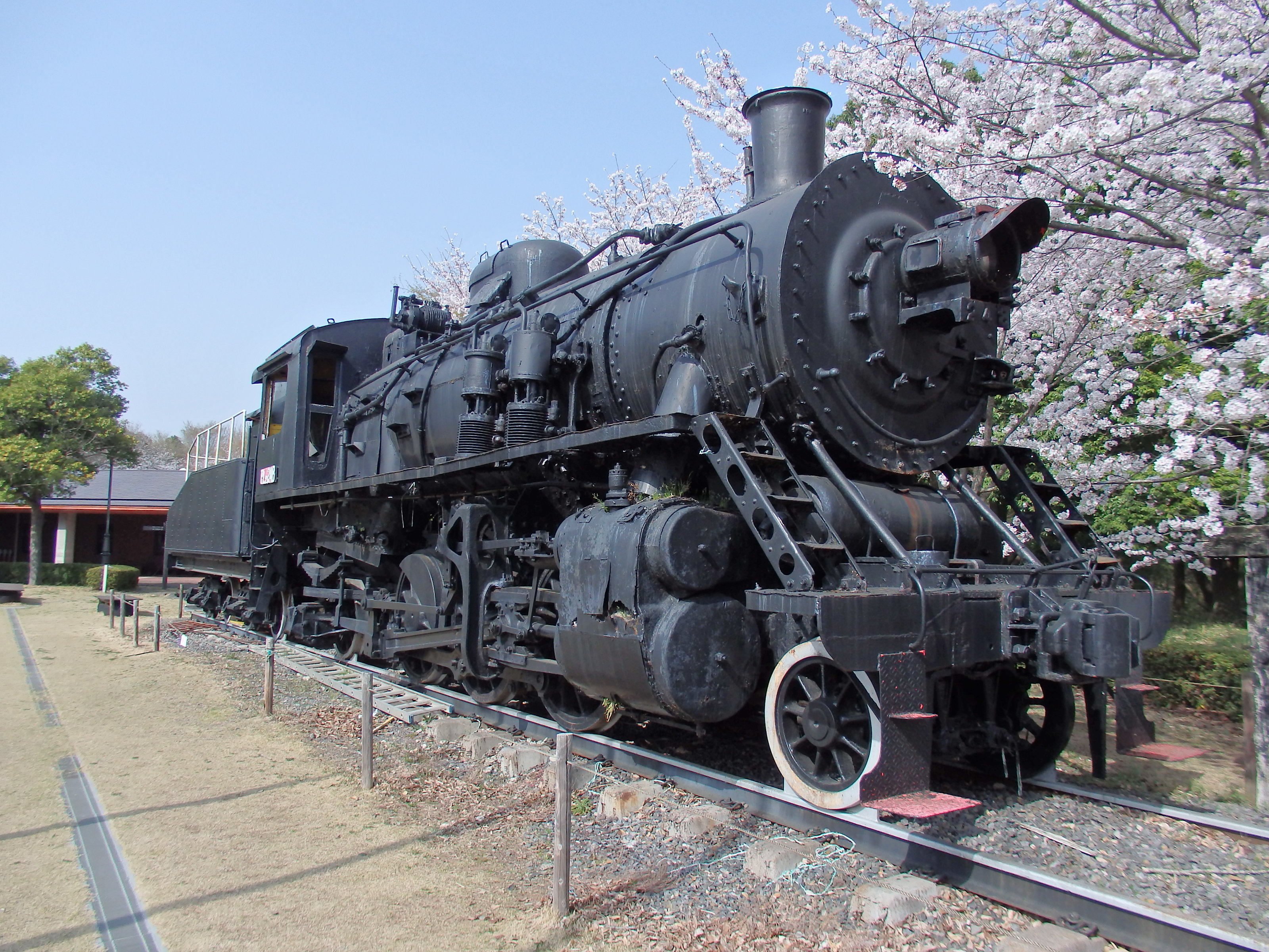 Former South Manchuria Railway Pureni 248 (PL2-248) steam locomotive, which is displayed in Kirakuyama Park, Tsukubamirai City, Japan.